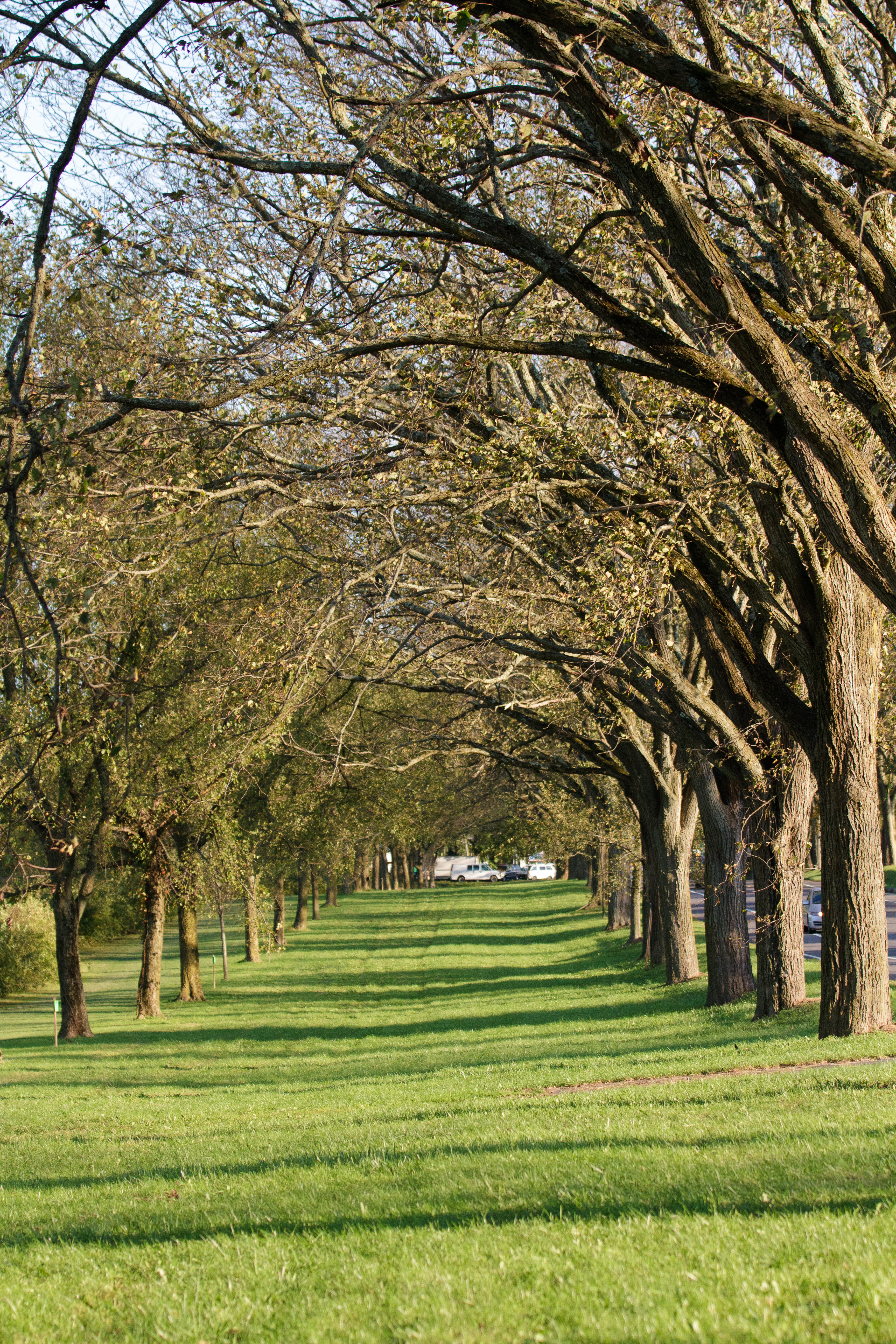 The east side of the Washington Road Elm Allée, looking south toward Route One, in Princeton's University's West Windsor fields in West Windsor Township, New Jersey.